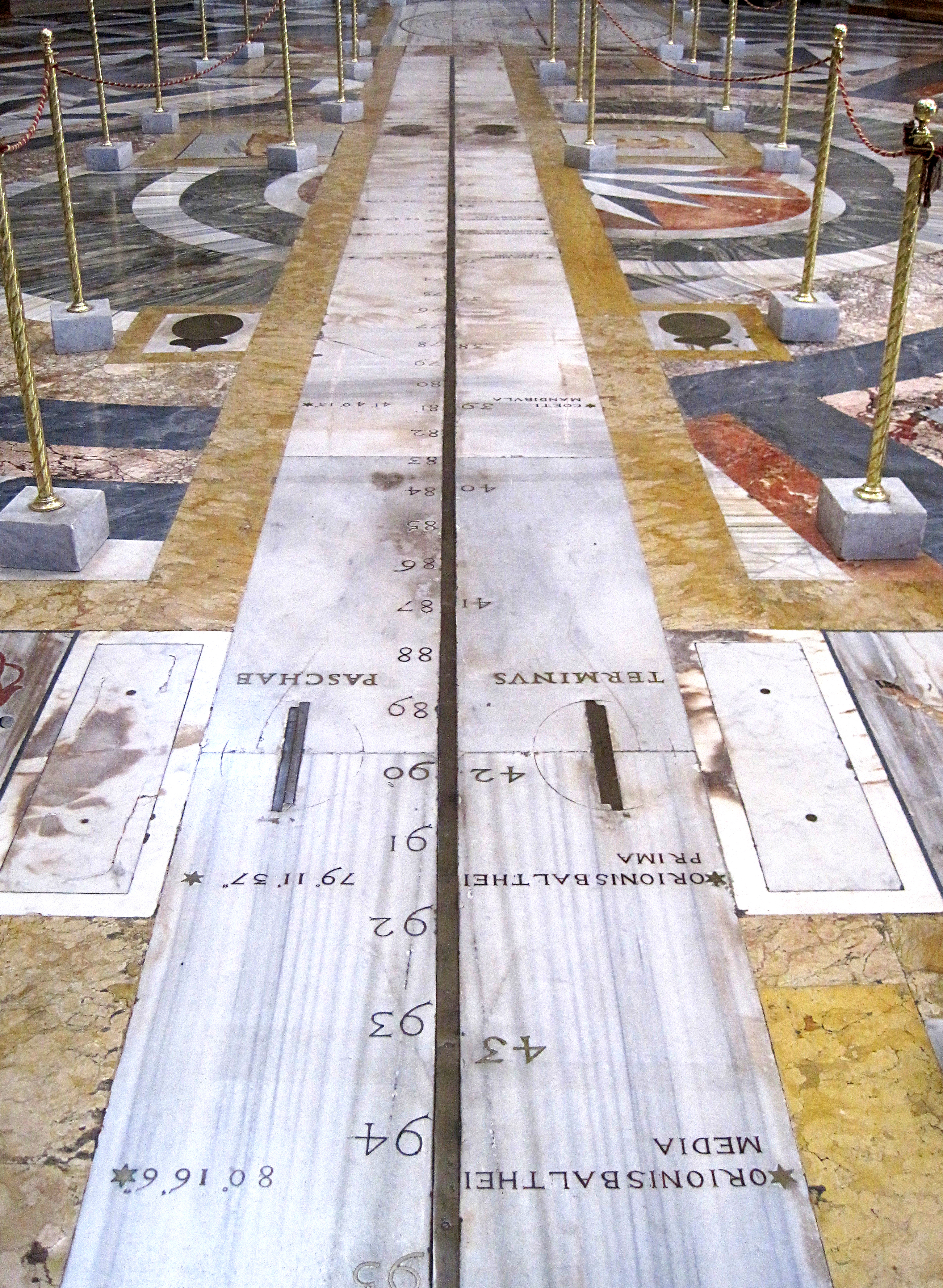 Meridian solar line of the Basilica Santa Maria degli Angeli e dei Martiri in Rome built by Francesco Bianchini (1702).